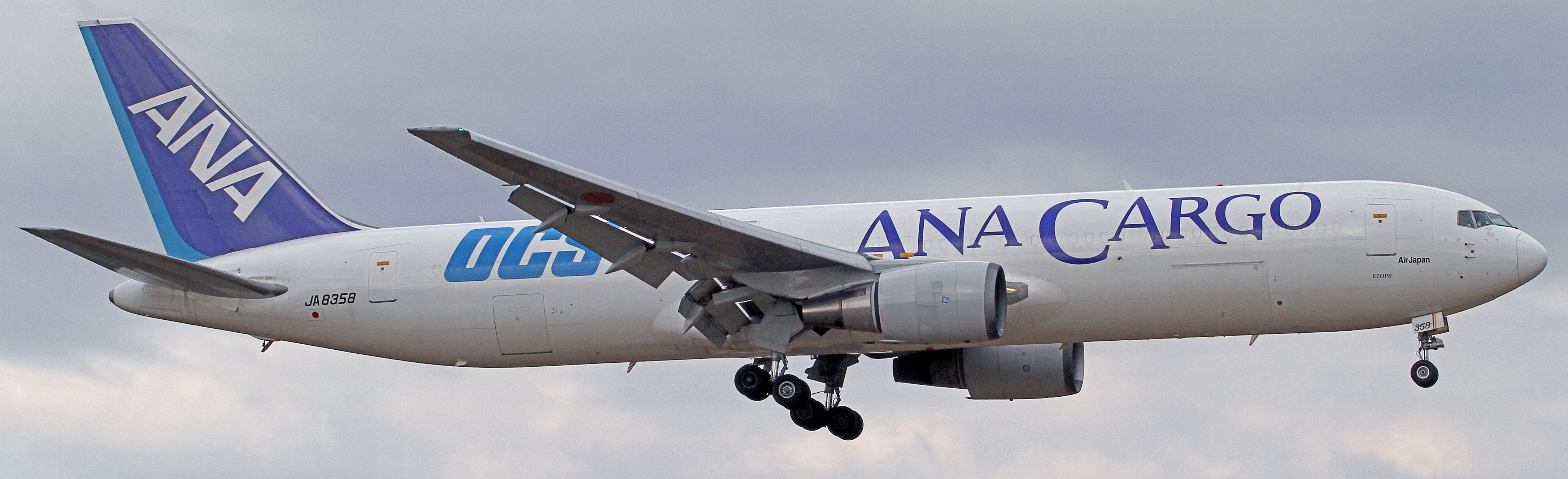 Narita International Airport, Boeing 767-381ERF, c/n:25616, All Nippon Airways